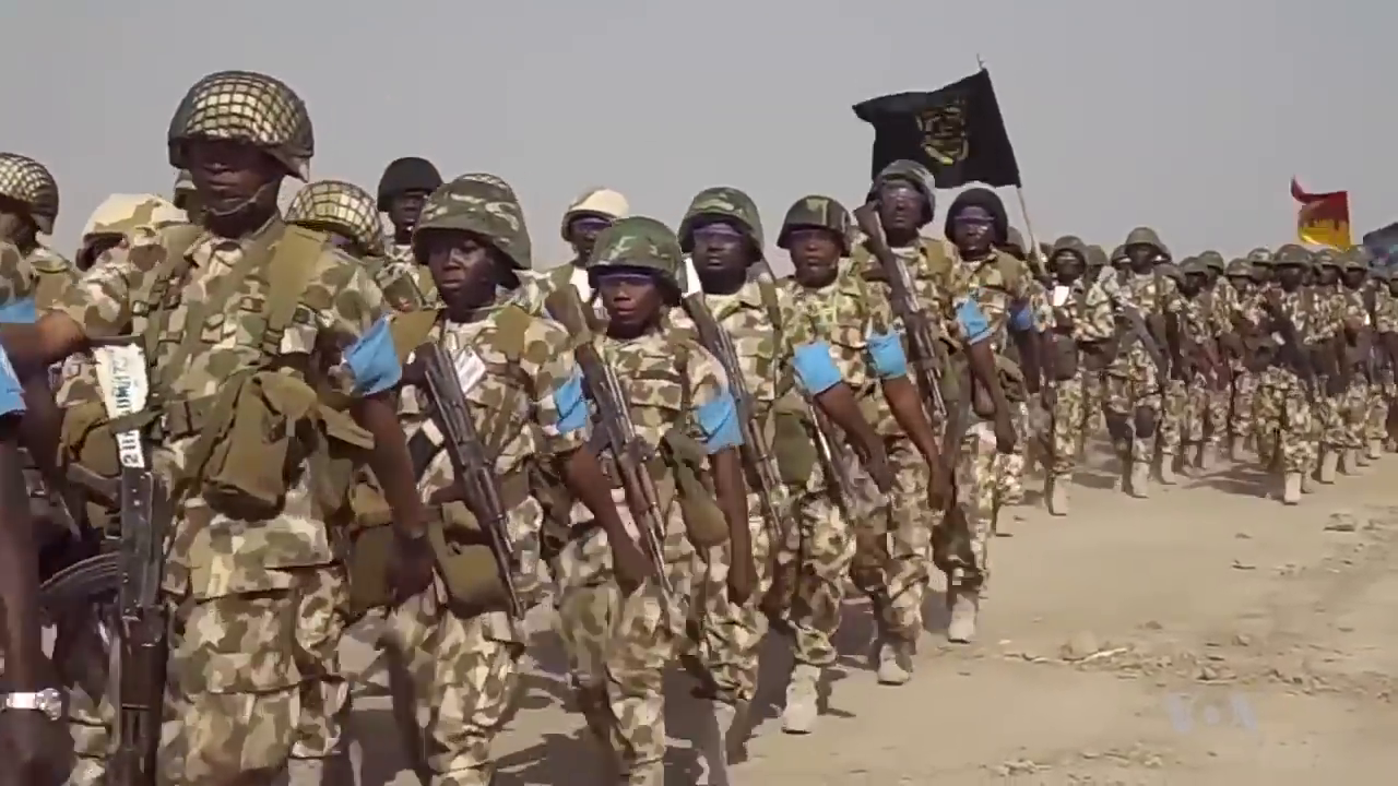 For the first time in years, the Nigerian Army conducted military drills in the Sambisa Forest which previously had been a stronghold for Boko Haram. For VOA, Hussaina Muhammad was given a rare access to the exercises in Maiduguri. Salem Solomon has the report. Flags of the 2 Division (Black) and of the 3 Division (Red and Yelllow)